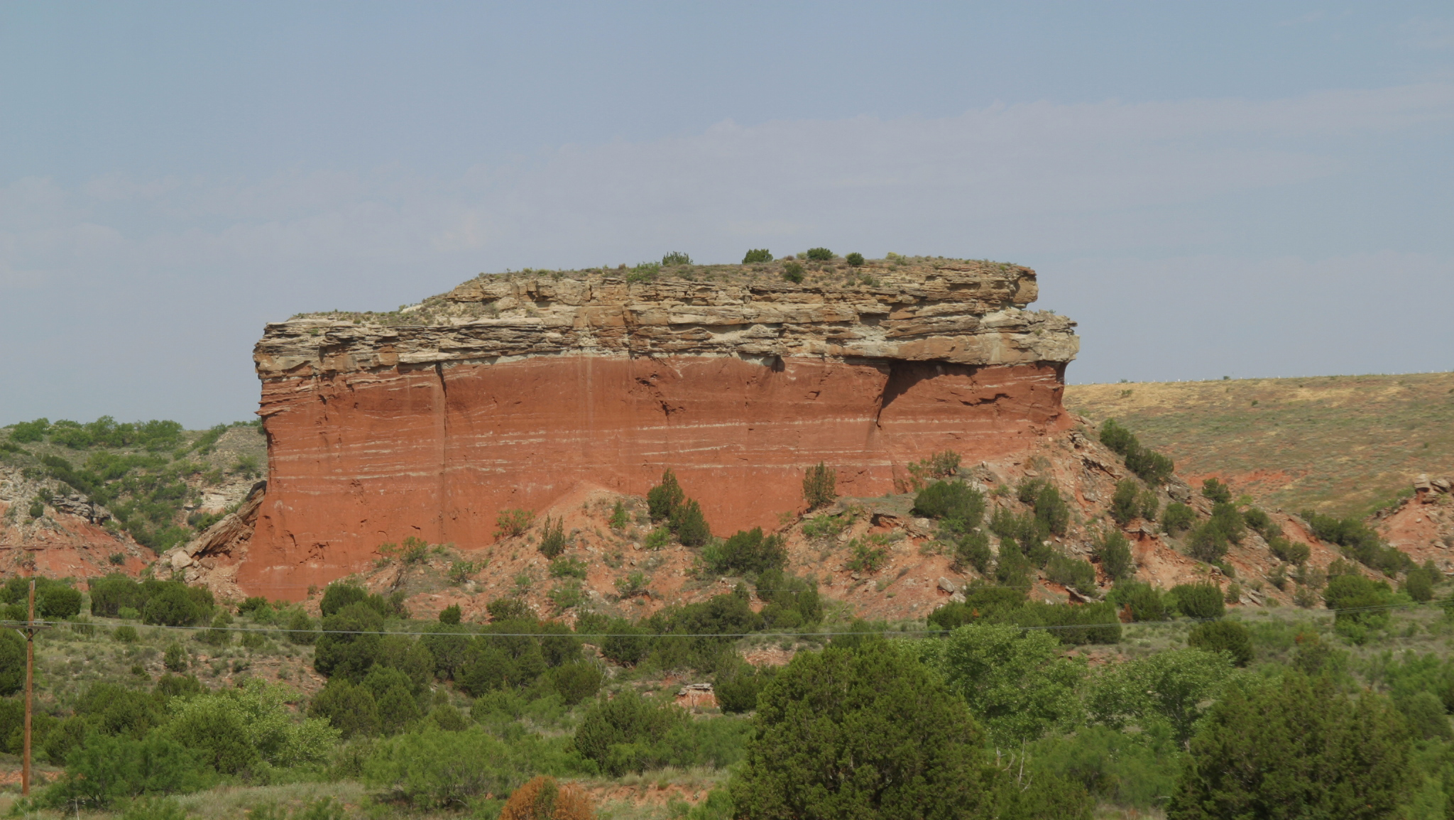 Colorful butte in Tule Canyon, Briscoe County, Texas.